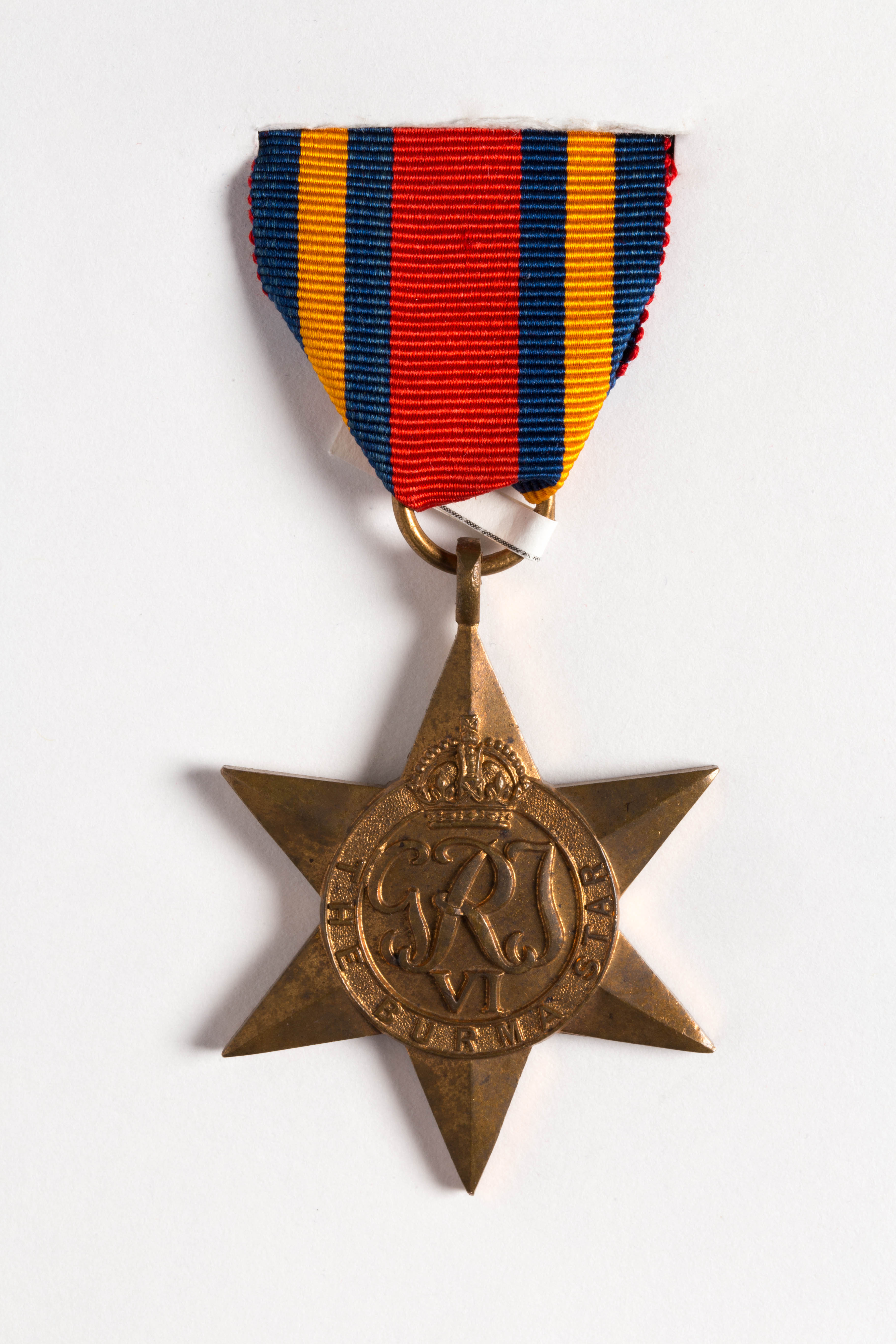 The Burma Star, WW2 Medal awarded to Wing Cdr Gordon Leslie Schrader, RAF, WW2 bronze six pointed star 43mm diameter, ring suspender, with ribbon Obverse- In the centre the Royal cypher ‘GRI’ with ‘VI’ below. The cypher is surmounted by a crown on a circlet which bears the title of the star ‘THE BURMA STAR’ reverse- plain Ribbon- 32mm wide grosgrain ribbon, dark blue with a wide red stripe down the centre. The blue edges each have a central orange stripe.